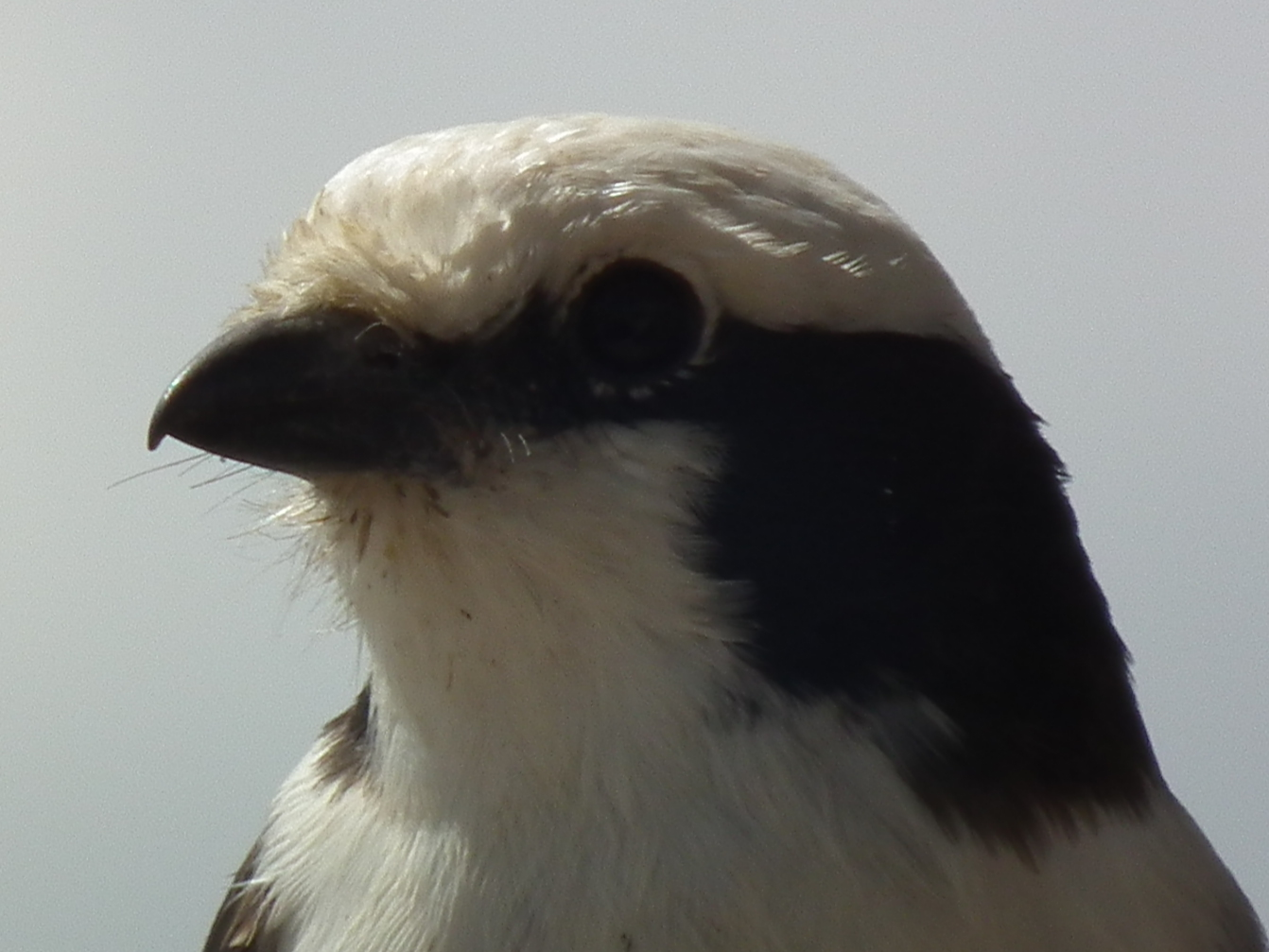 Northern White-crowned Shrike (Eurocephalus rueppelli), picture taken at, Tanzania